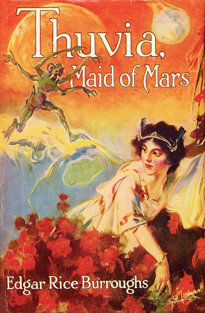 All-Story Weekly, April 8, 2016